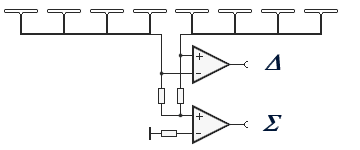 Principle of Monopulse Antennae: The single antenna elements aren't always together switched in phase! For different purposes various sums and differences can be formed from the received energy.